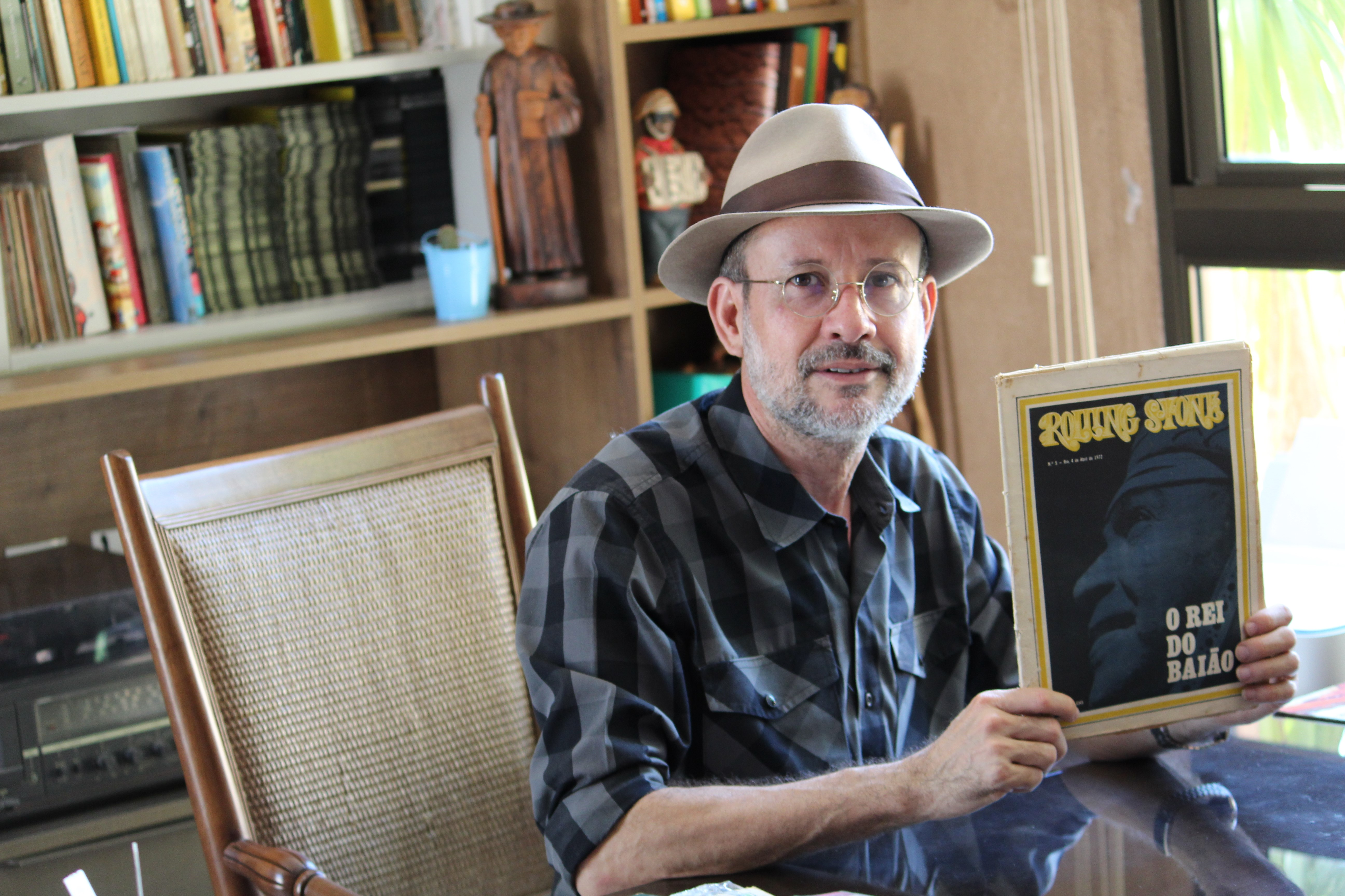 Presidente da Colônia Gonzaguiana do Piauí